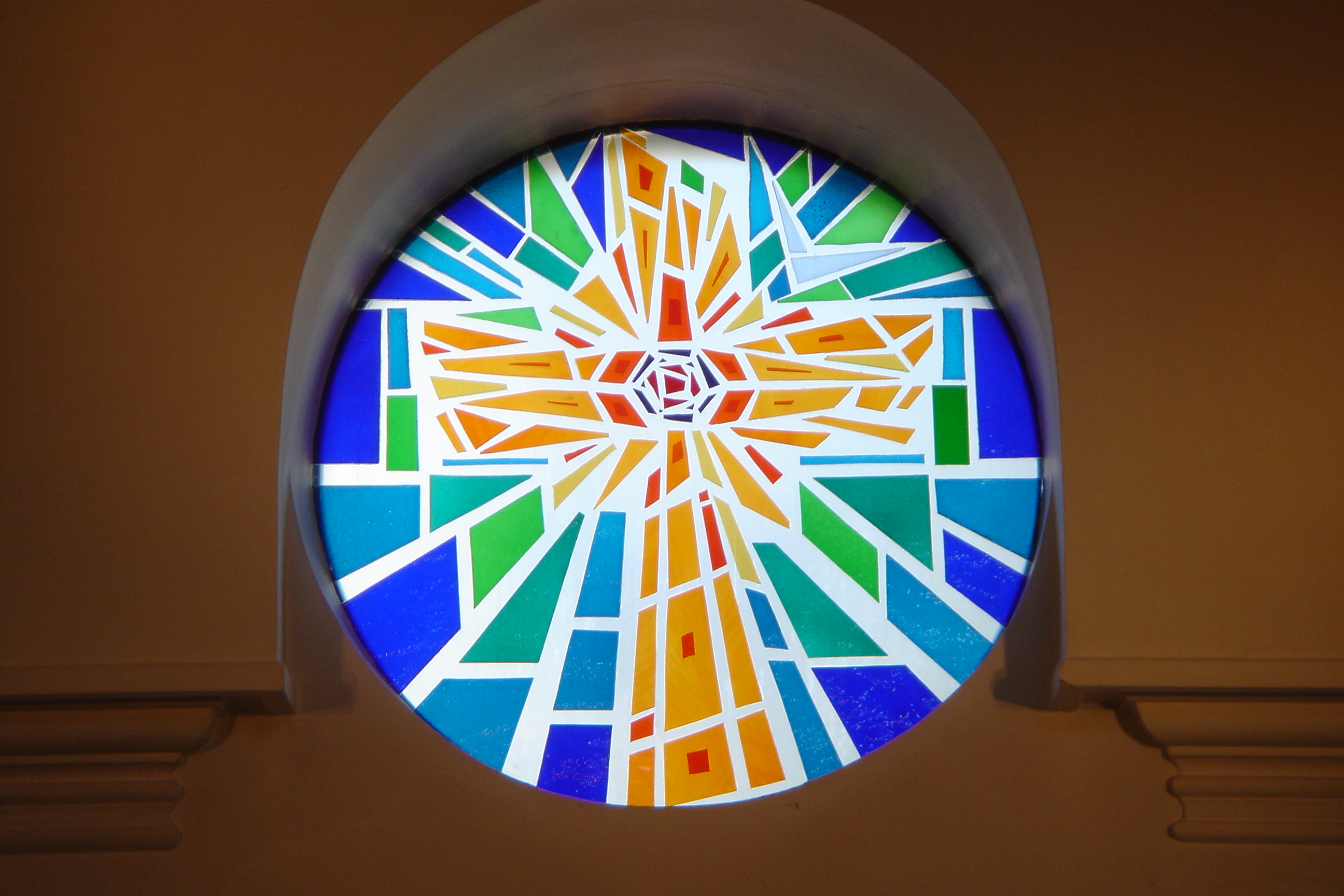 Glass in Hjoerring Baptist Church